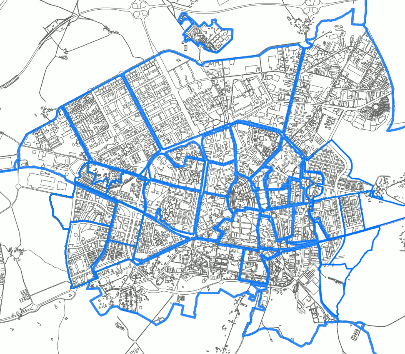 Neighbourhoods of Vitoria-Gasteiz in 2010